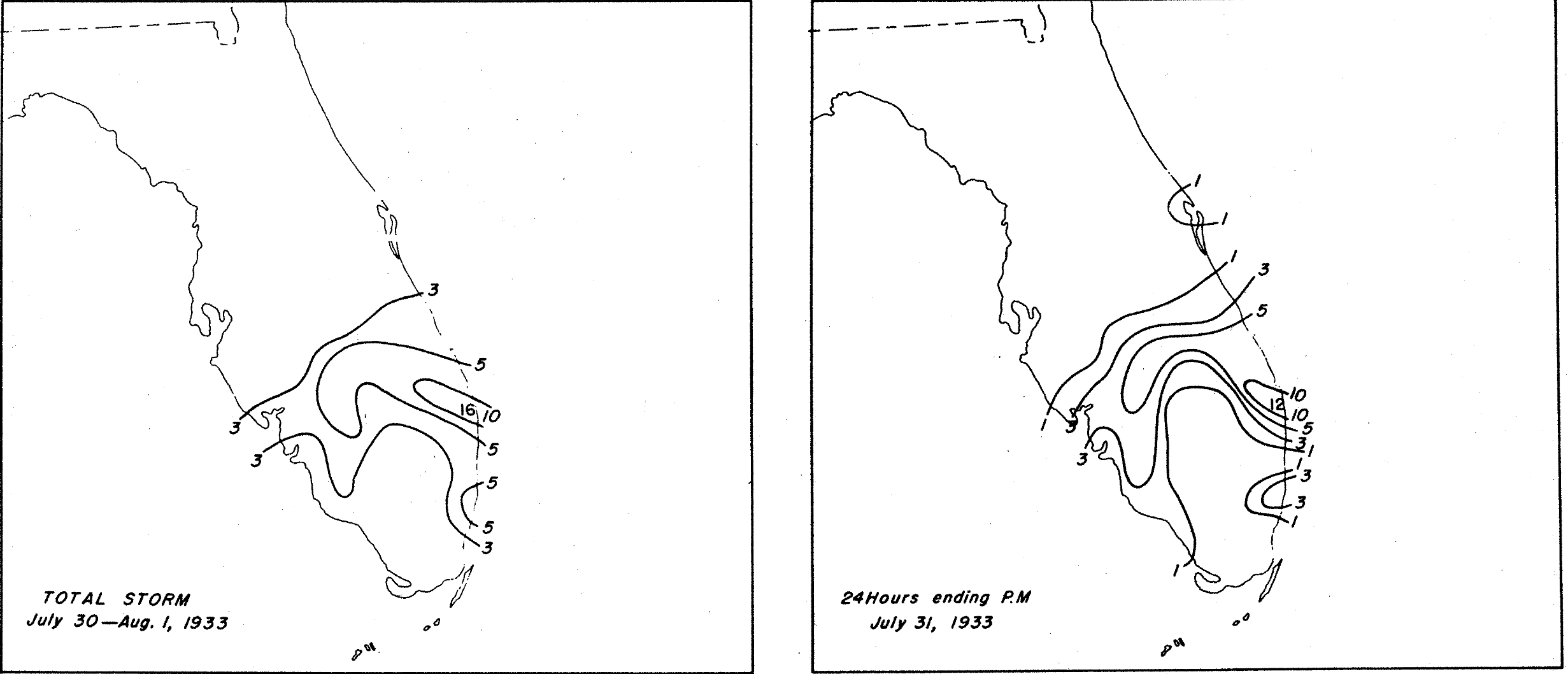 Rainfall from the 1933 Florida–Mexico hurricane over Florida.